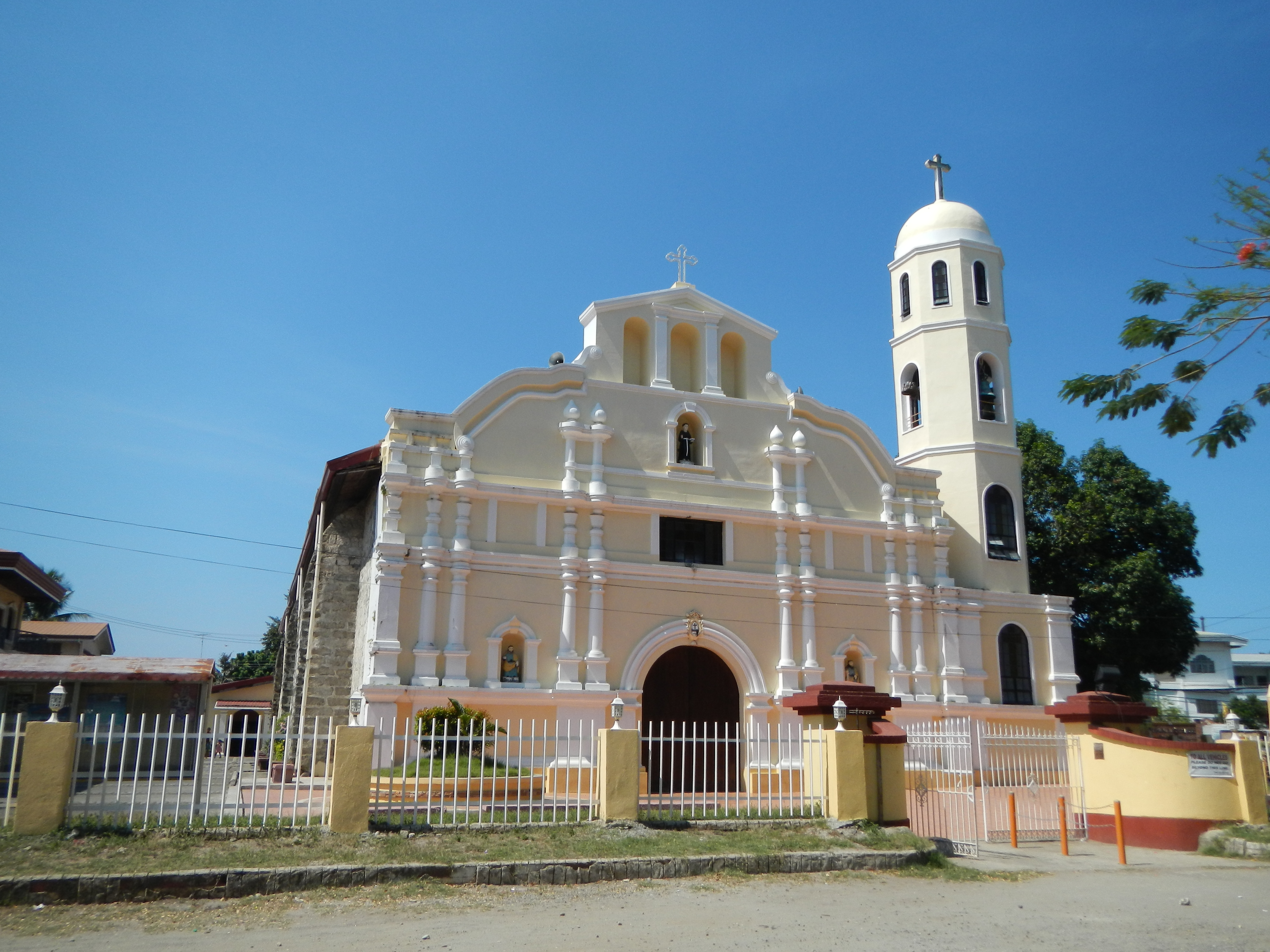 Cathedral of St. Augustine in Iba (F-1681), Iba 2201 Zambales Iba, Zambales[1] Titular: St. Augustine, Aug. 28 Parish Administrator: Fr. Josefino Bernardo Parochial Vicars: Fr. Arwin E. Ysonza, Fr. Rodel Ignacio Director, St. Augustine’s School: Fr. Daniel O. Presto San Andres Vicariate Vicar Forane: Fr. Ernesto C. Raymundo [2] Population: 29,112; Catholics: 24,468 Parish Priest: Rev. Fr. Apolinario VL Lezada Parochial Vicar: Rev. Fr. Ceferino Añez It belongs to the Roman Catholic Diocese of Iba[3] [4] [5] [6] [7] St. Augustine Cathedral (Diocese of Iba) ZONE IV MAGSAYSAY AVENUE Coordinates: 15°19'33"N 119°58'47"E[8]ugustine of Hippo (pron.: /ɔːˈɡʌstɨn/ or /ˈɔːɡəstɪn/; Latin: Aurelius Augustinus Hipponensis; 13 November 354 – 28 August 430), also known as St Augustine, St Austin,[4] or St Augoustinos, was a Father of the Church whose writings are considered very influential in the development of Western Christianity and philosophy. He was bishop of Hippo Regius (present-day Annaba, Algeria) of the Roman province of Africa.[9]List of cathedrals in the Philippines - The Cathedral of Iba, also known as the Cathedral of Saint Augustine, is the seat of the Roman Catholic Diocese of Iba. The church of the diocese is a 17th century Baroque church built by the Augustinian Recollects. It is located adjacent to the Provincial Capitol Building. The current bishop of the diocese is the Reverend Florentino G. Lavarias, D.D..[10]